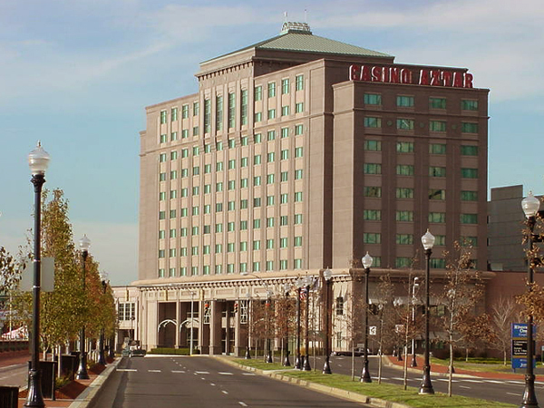 The Casino Aztar Hotel, Downtown Evansville.